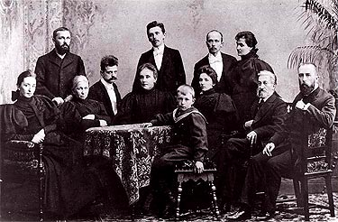 The Järnefelt family with composer Jean Sibelius (1865–1957). Standing: Arvid, Armas, Eero and his wife Saimi Järnefelt. Seated: Aino Sibelius, Elisabeth Järnefelt, Jean Sibelius, Emmy (Arvid's wife) and Eero (Arvid's son), Elli Järnefelt (Aino's sister), Mikael Clodt (Elisabeth's brother) and Kasper Järnefelt. This picture was taken after August Alexander Järnefelt's death in 1896.